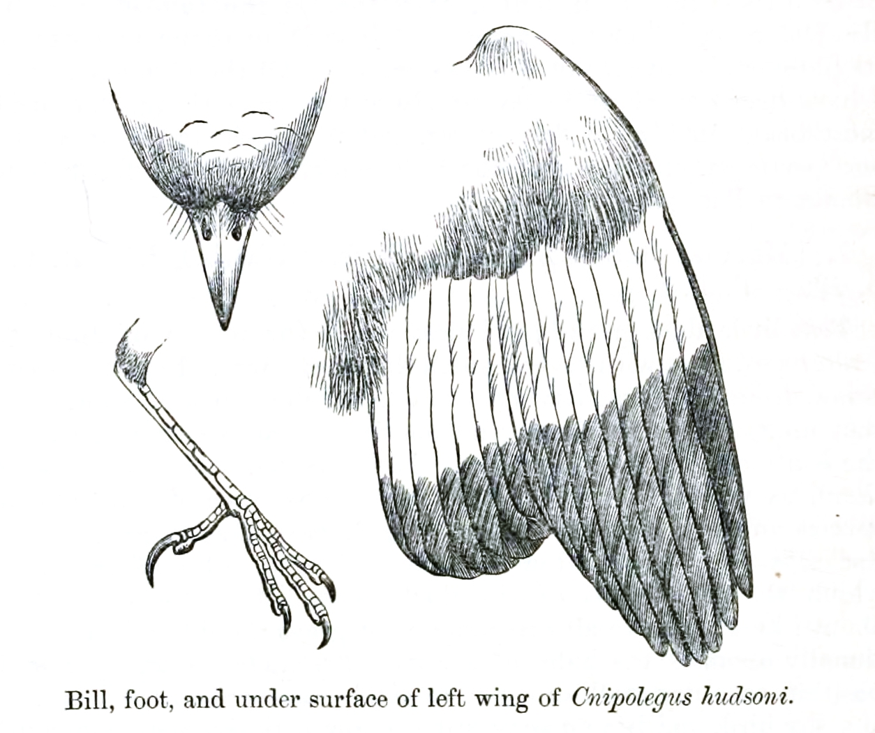 Hudson's Black-tyrant, male: left wing from ventral, beak from dorsal and foot from lateral